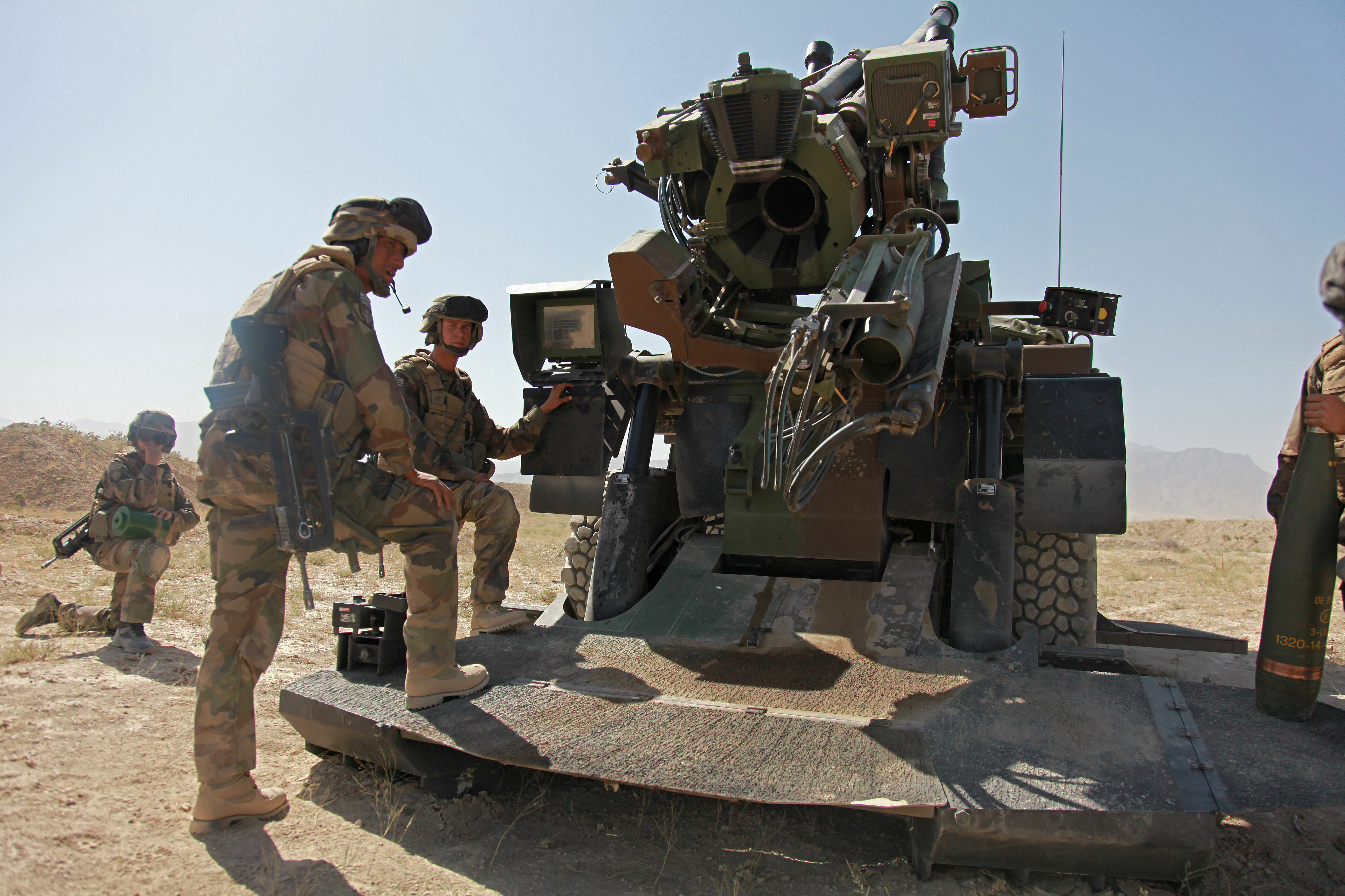 French soldiers conduct a live-fire exercise, with their Nexter Systems Caesar self-propelled wheeled armored vehicles, outside of Bagram Airfield, Afghanistan, Aug. 14, 2009.